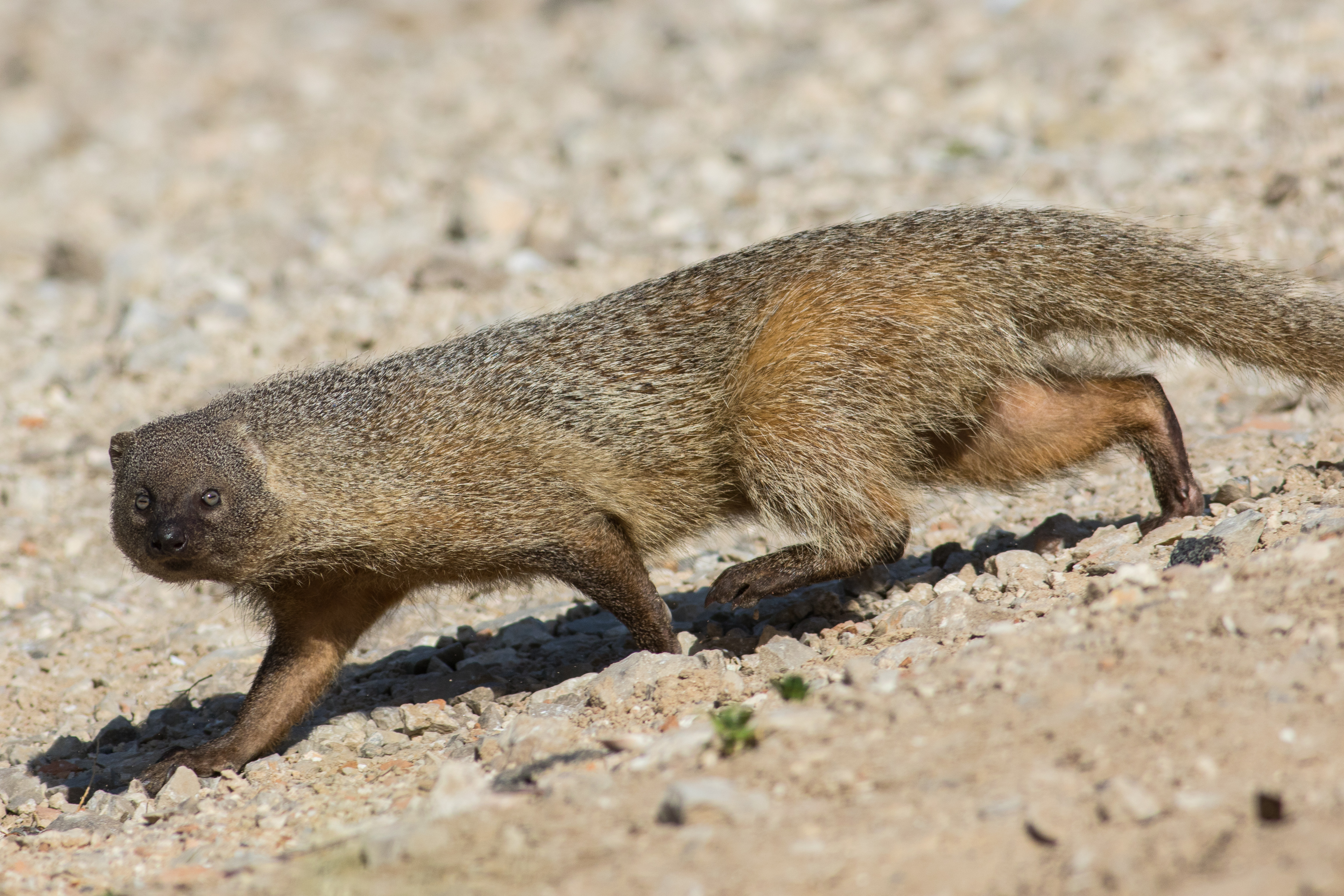 Herpestes ichneumon, Ashkelon National Park, Israel.